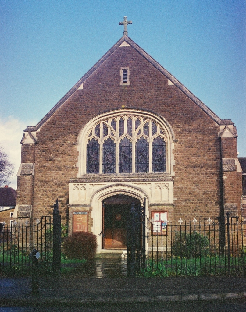 The West front of the Church of Our Lady & St Peter, Leatherhead.